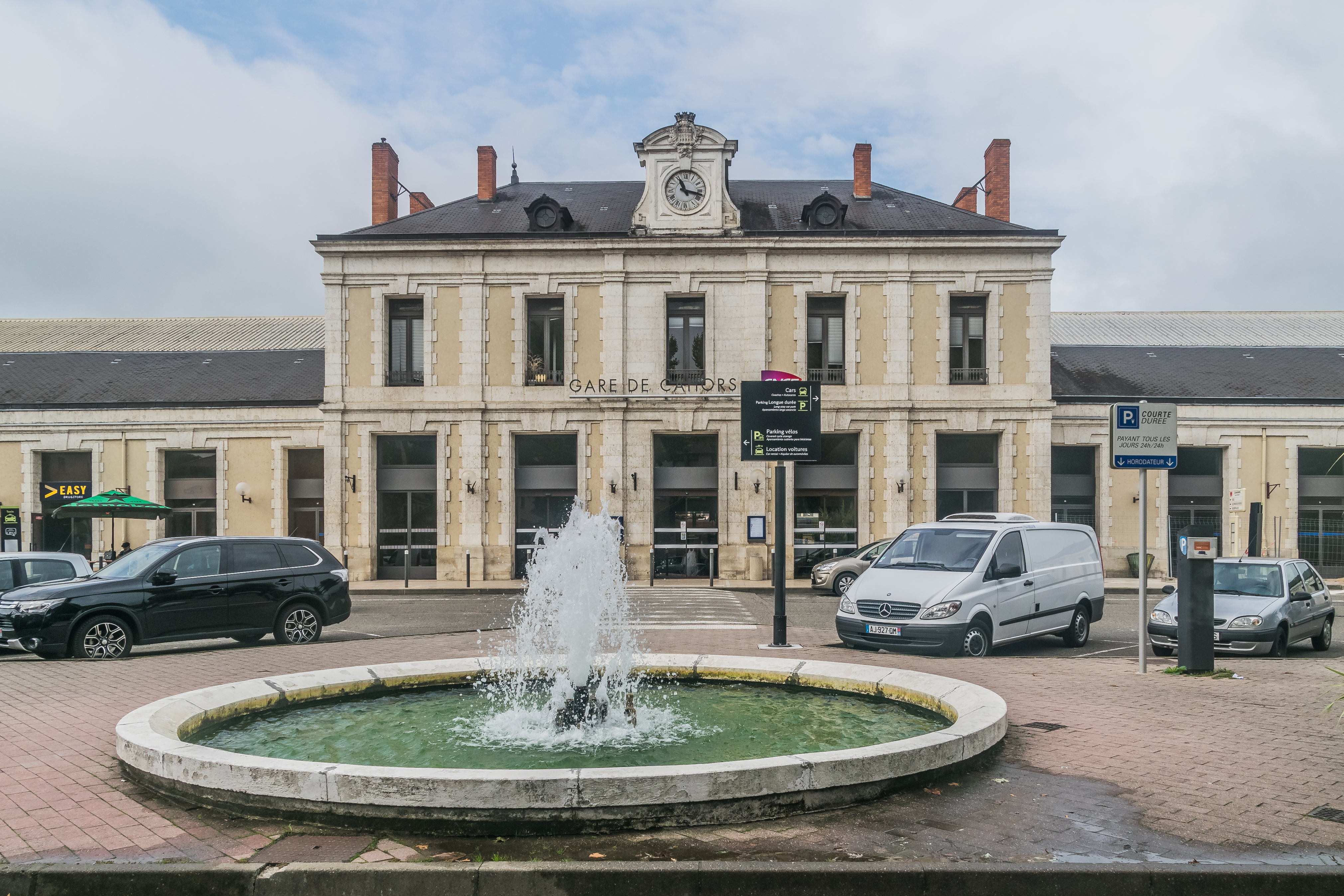 Railway station in Cahors, Lot, France